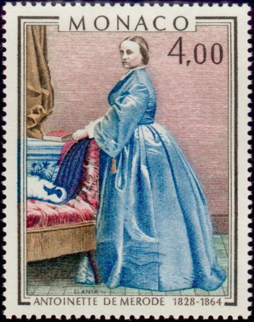 Stamp of Antoinette de Merode